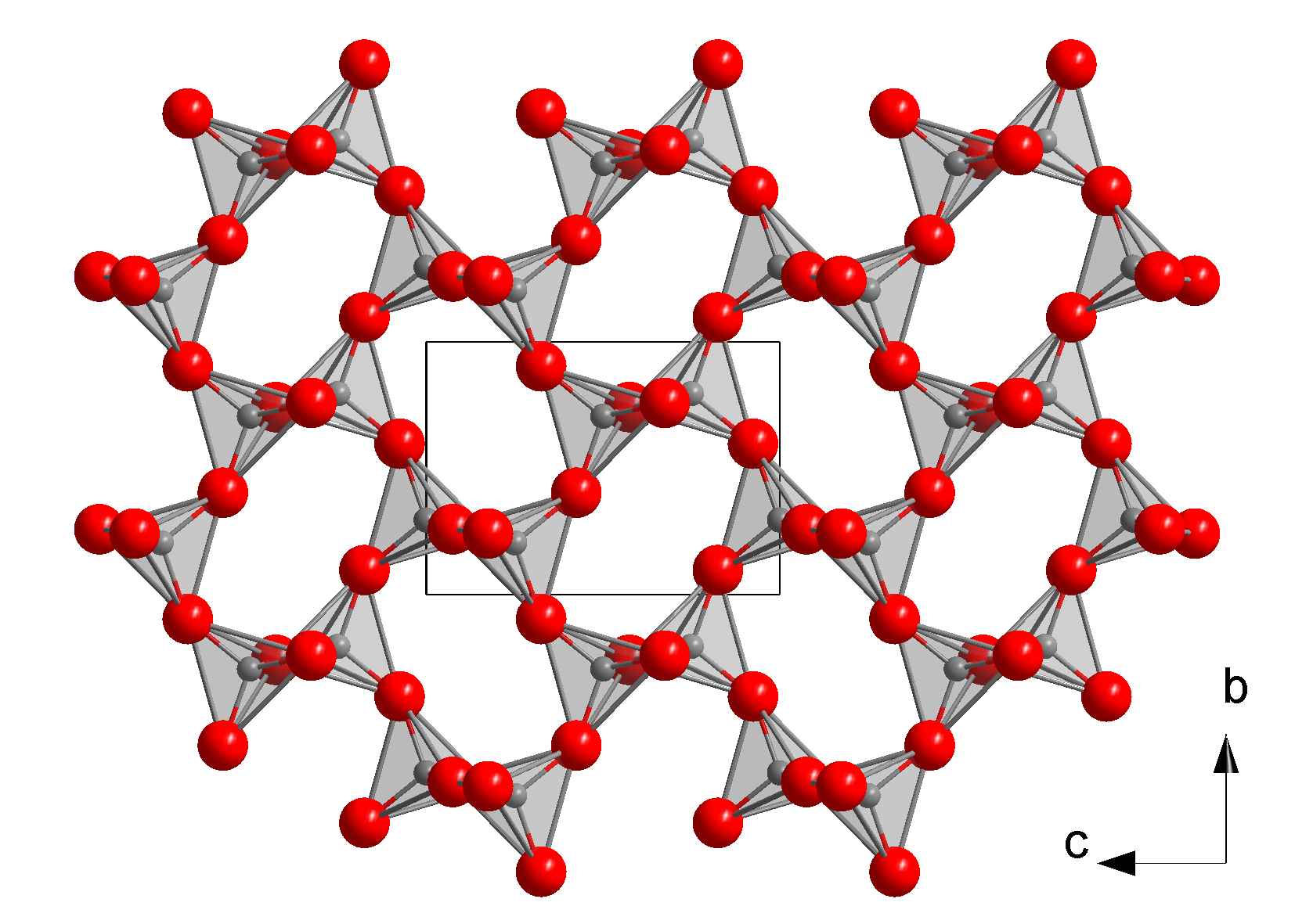 Crystal structure of α-cristobalite